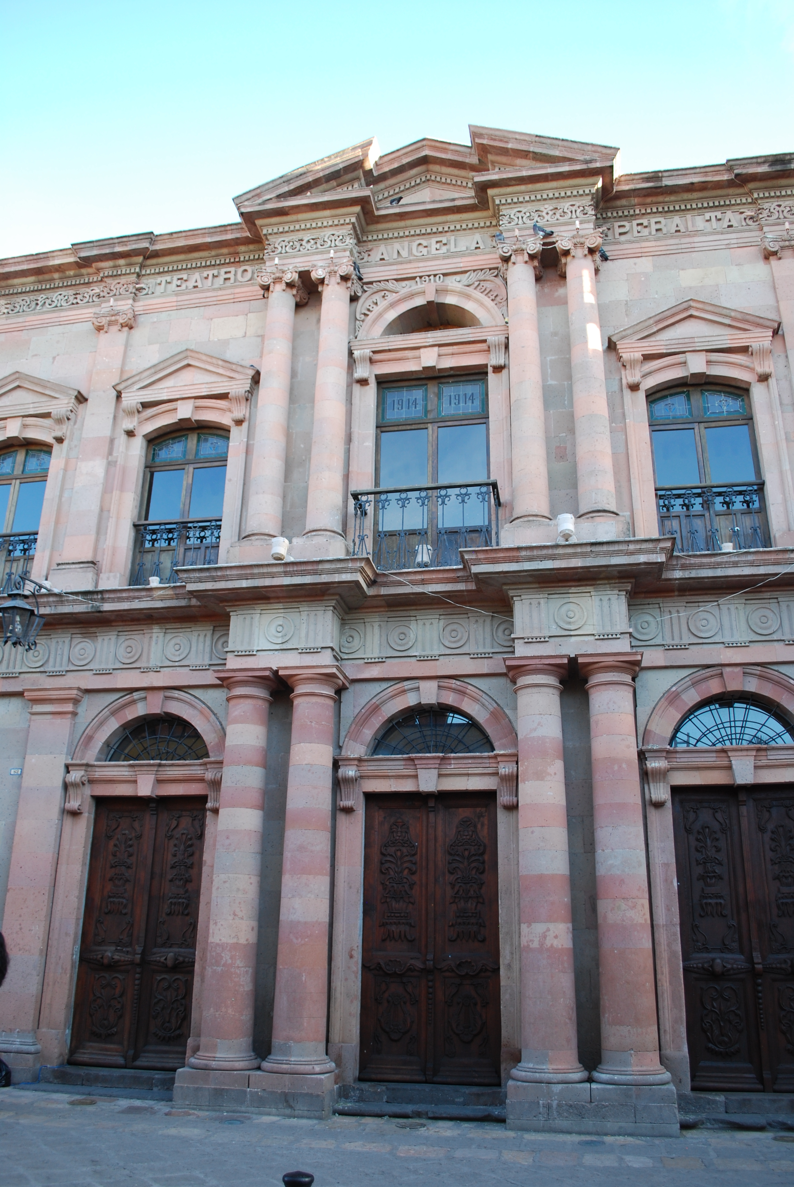 Angela Peralta Theatre in San Miguel de Allende, Guanajuato, Mexico